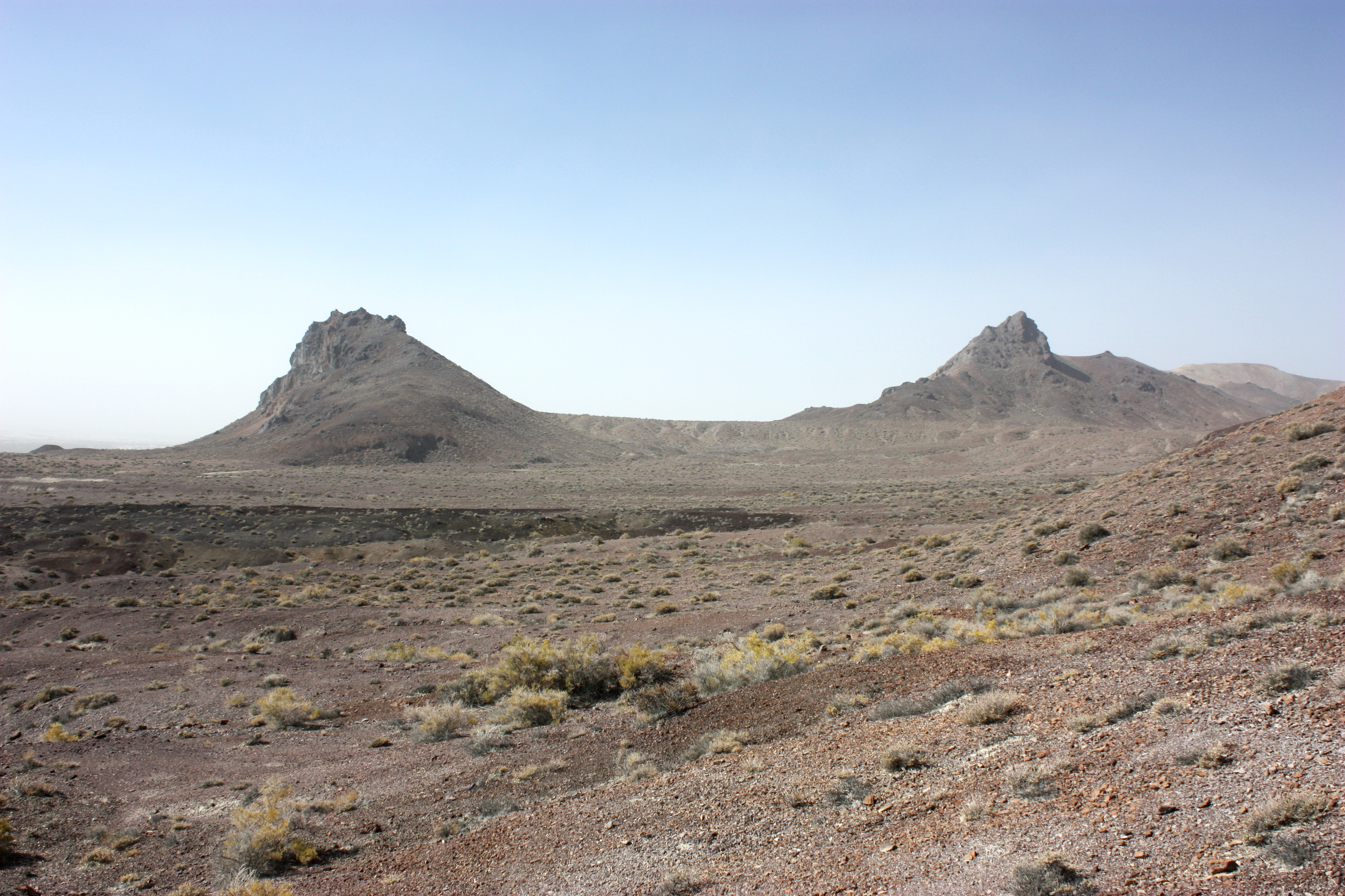 A view of the southern Black Rock Range in October 2009. An approaching dust storm obscures visibility of the Black Rock Desert playa on the left side.